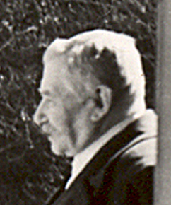 This is a portrait of the mathematician Alexander Witting in 1938.